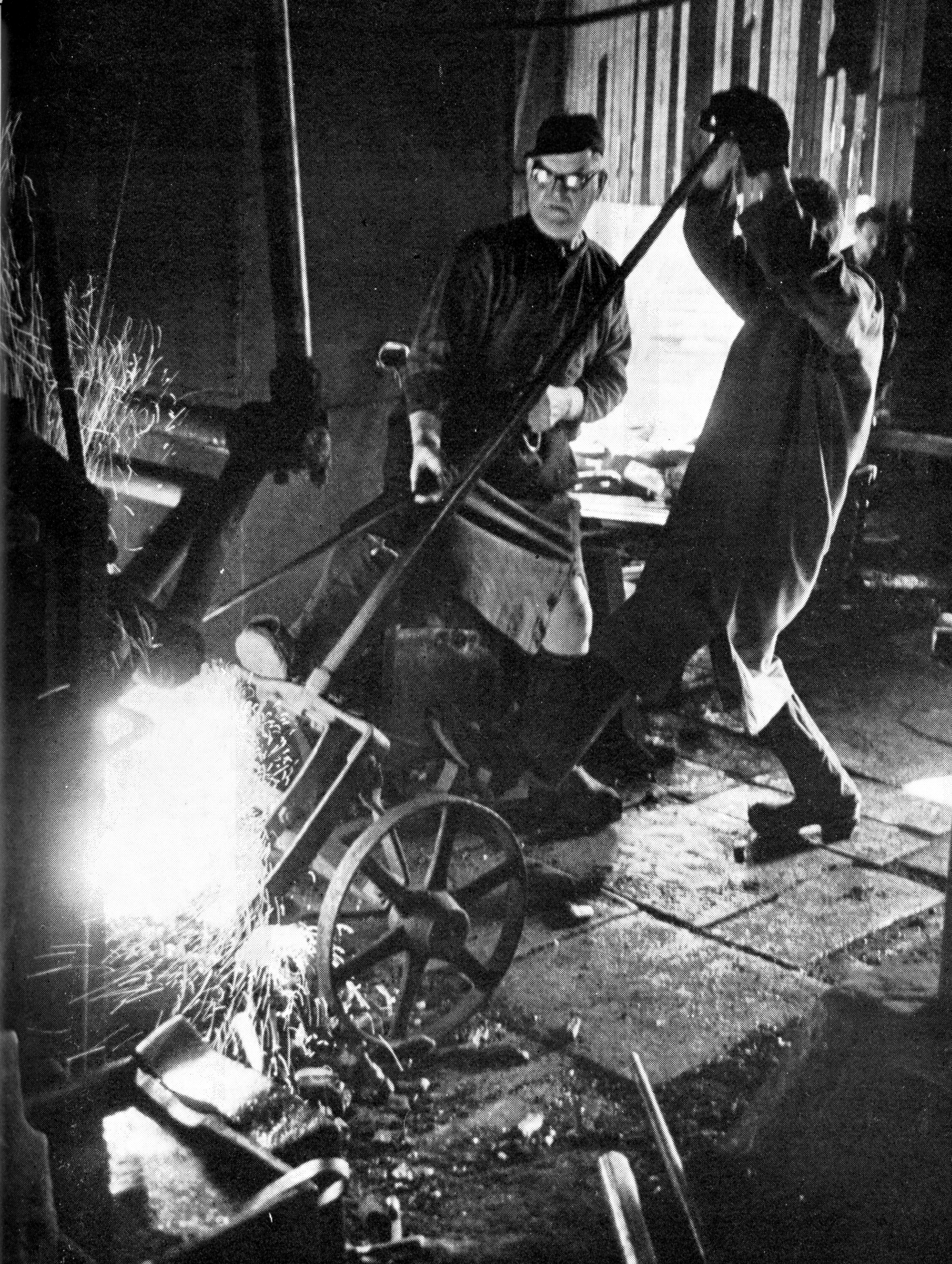 Lancashire forging in Gisslarbo, Sweden.